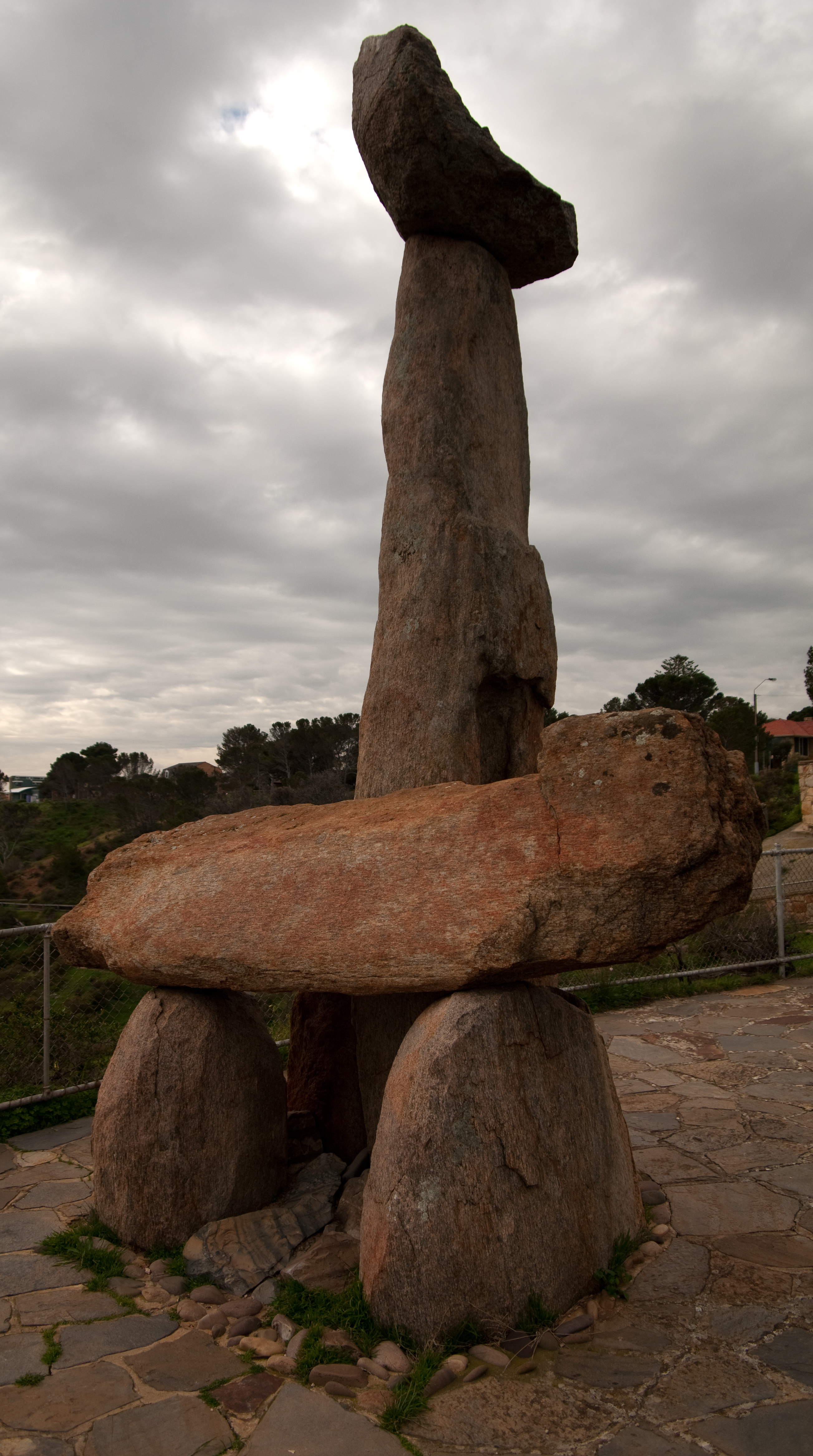 Tjilbruke was an important figure in the Dreamtime stories of the Kaurna people of the Adelaide Plains. After the death of his nephew, Kulultuwi, Tjilbruke carried the body south along the coast, from Warriparinga to Rapid Bay. At each point where he stopped to rest his tears created freshwater springs. This sculpture by John Dowie is located at Kingston Park. It was here that Tjilbruke prepared Kulultuwi for burial after carrying his remains from Warriparinga, prior to starting the journey south.